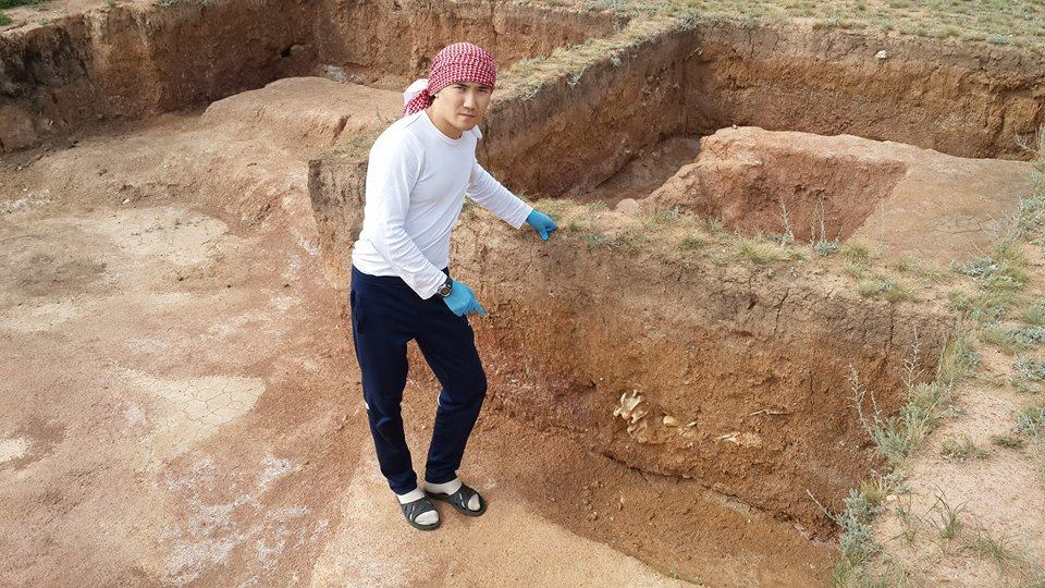 Expedition. In excavations in the historical settlement "Botai" 6000 BC For subsequent DNA analysis of bone ancient people.